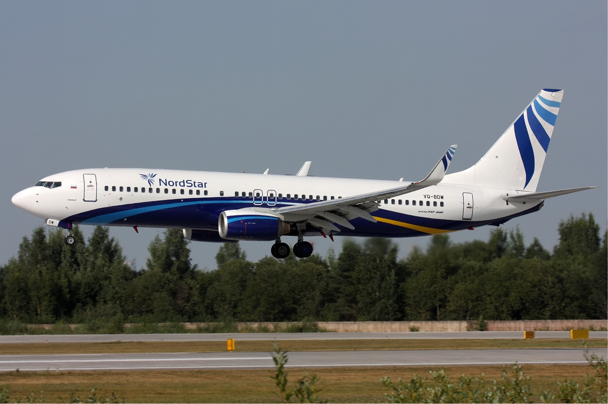 Nordstar Boeing 737-800